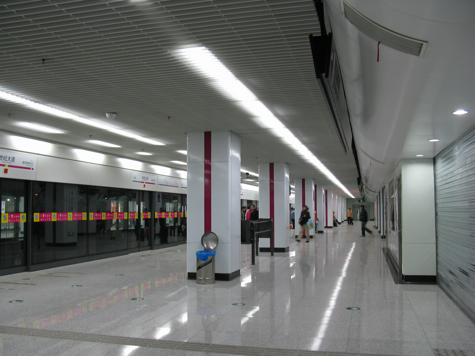 世纪大道站 6号线月台 Line 6 Platform of Century Avenue Station